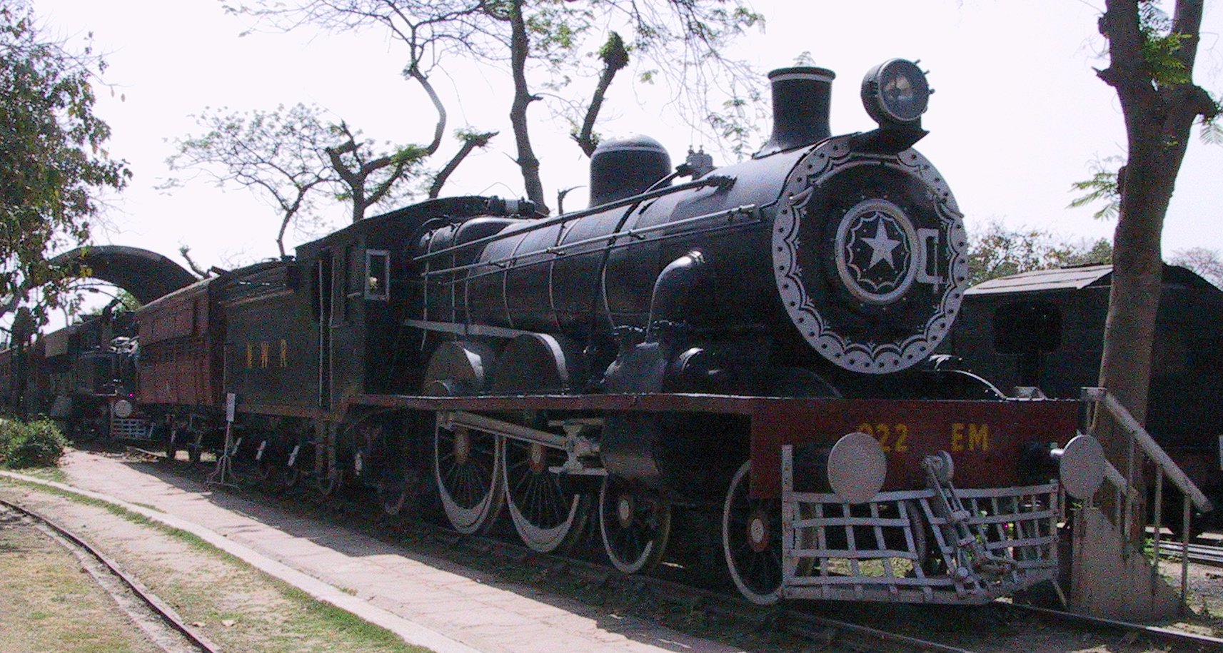 Broad gauge steam locomotive EM 922 (NWR) was built by the North British Loco Company, Atlas Works, Glasgow, Scotland, in 1907. It was used to haul passenger trains on the Great Indian Peninsula Railway and the North Western Railway (British India). In 1922, it was fitted with a superheater, and in 1941 it was re-built by the Mughalpura Workshops from an E 1 type 4-4-0 to an EM type 4-4-2.The information in this description is taken from Om Prakash Tyagi (2 April 2009). "rail trail: Know Your Exhibits: EM-922 (NWR)". The Indian Express. Indian Express Limited. Retrieved on 17 June 2013.